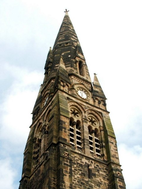 Roystonhill Spire. See 691527 and 691535 for more information on the spire. The photograph was taken from the area just to the south of the spire; there was an inscription there: "On the 28th of July 2001, messages collected from the people of Royston were transmitted from this spot into space. In space, the messages will carry on forever, while a radio-receiver within Royston Spire awaits a response. On receiving a signal, a red light will flash from the Spire across Royston and let people know."